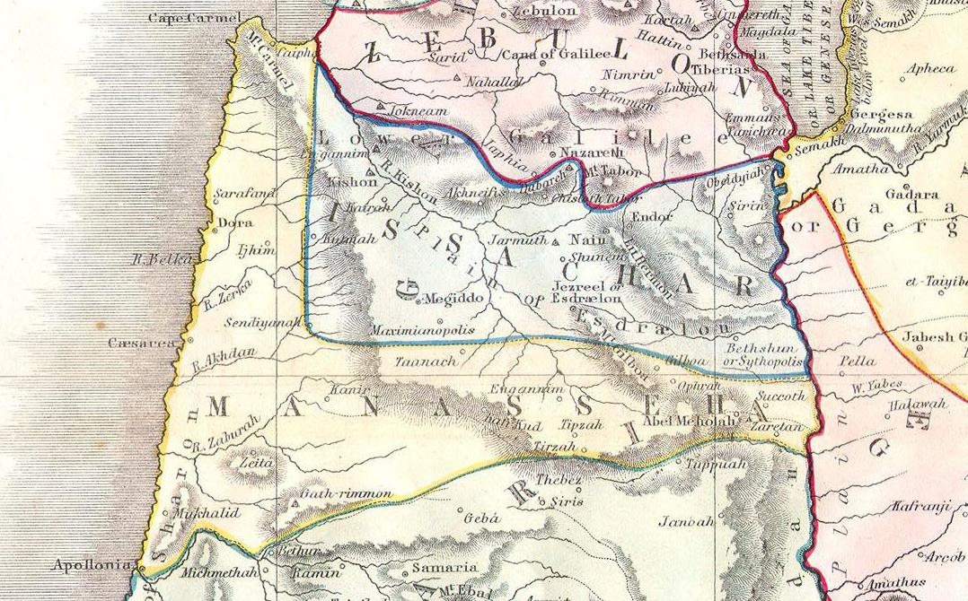 This beautiful hand colored map is a steel plate engraving of Israel / Palestine or the Holy Land. Depicts the region as it would have been during the period of the Twelve Tribes of Israel. There are numerous notations referencing well, caravan routes and Biblical locations. Dated “Liverpool, Published by George Philip and Sons 1852”.